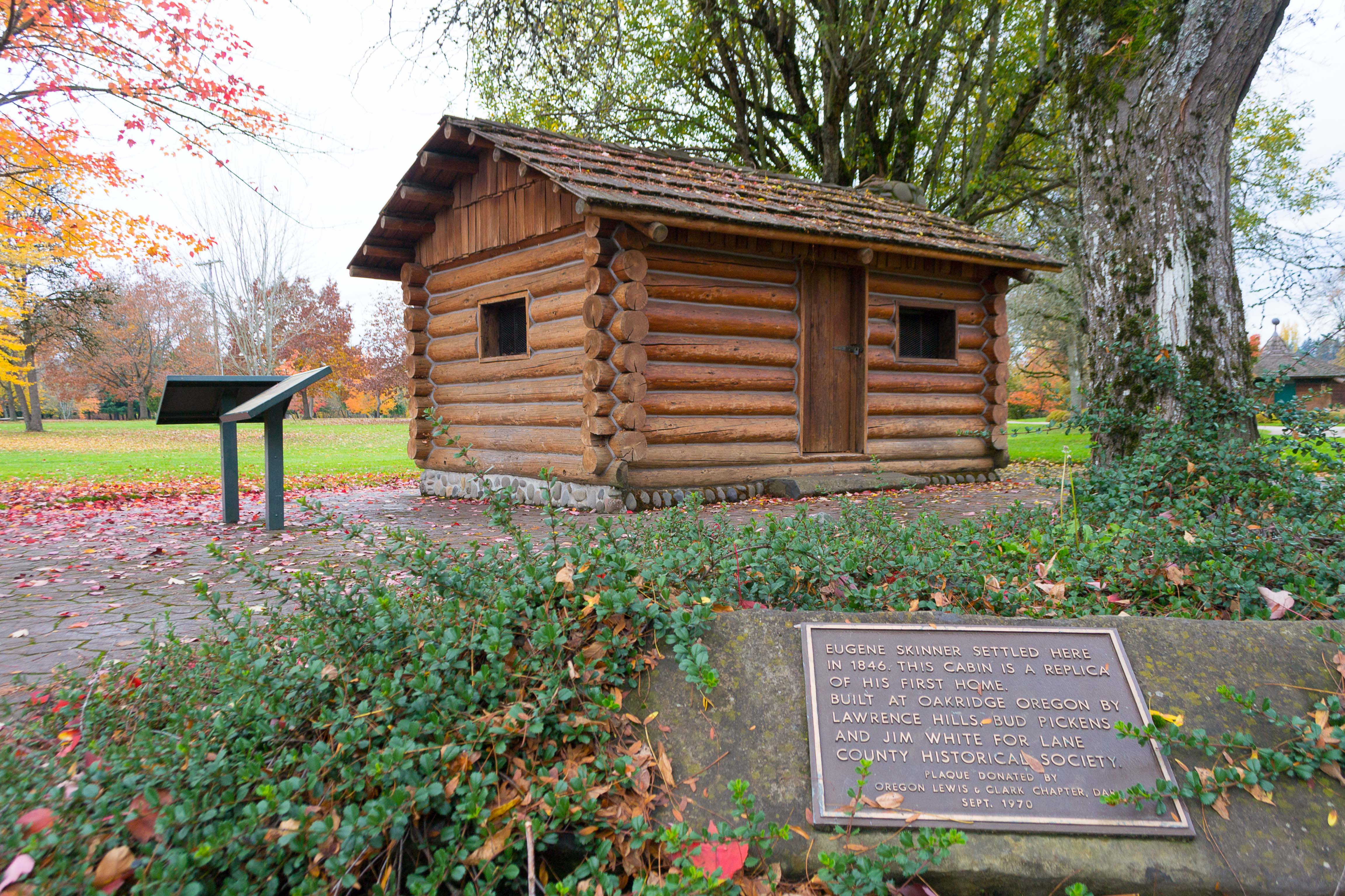 A replica of the first cabin inhabited by Eugene Skinner during the founding of Eugene, Oregon